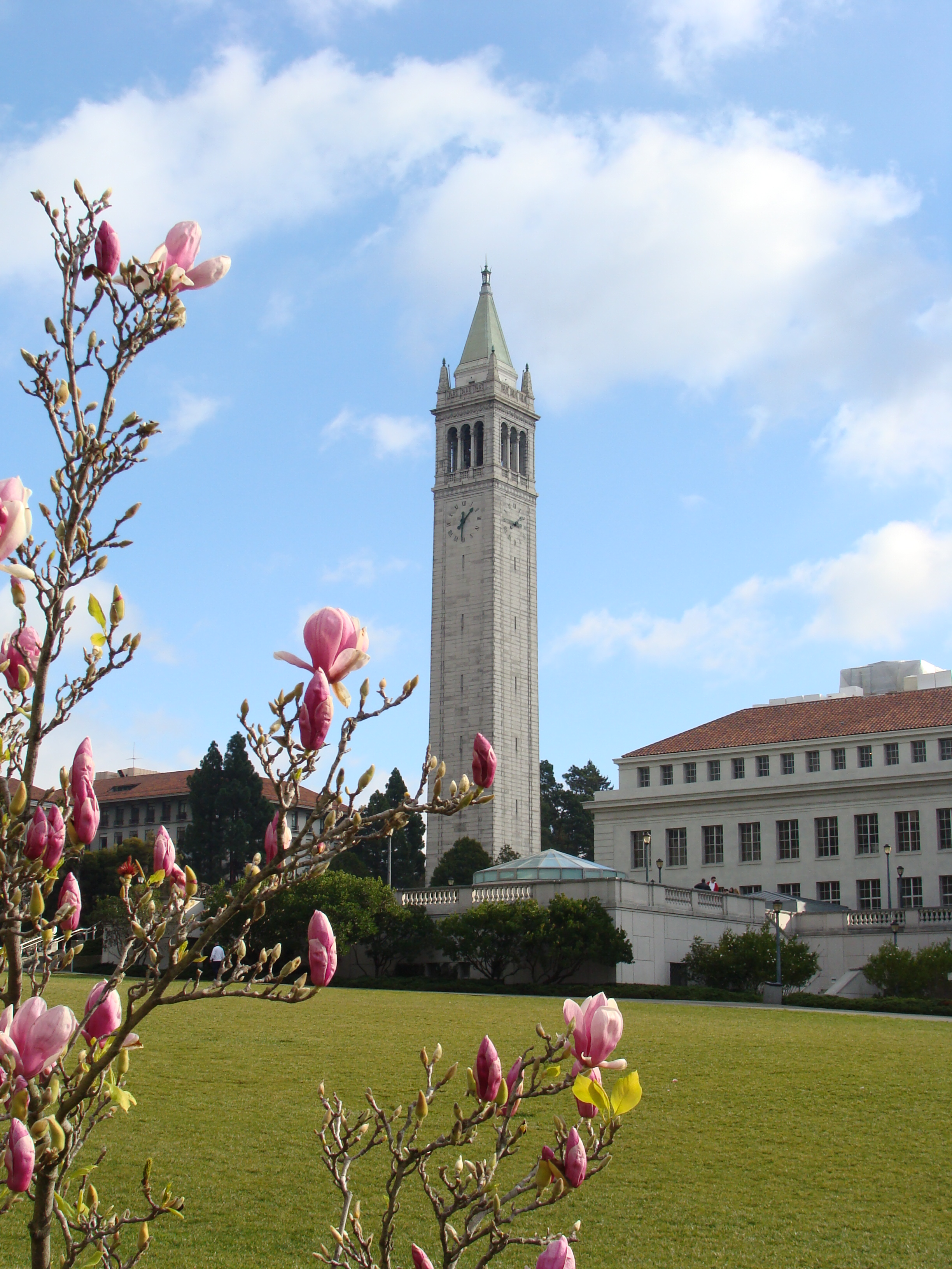 Photographer:Billy Au Date: 2007.12